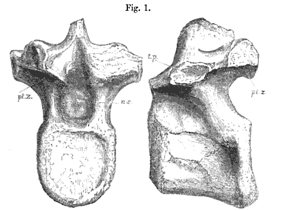 Holotype vertebra of Sygonosaurus